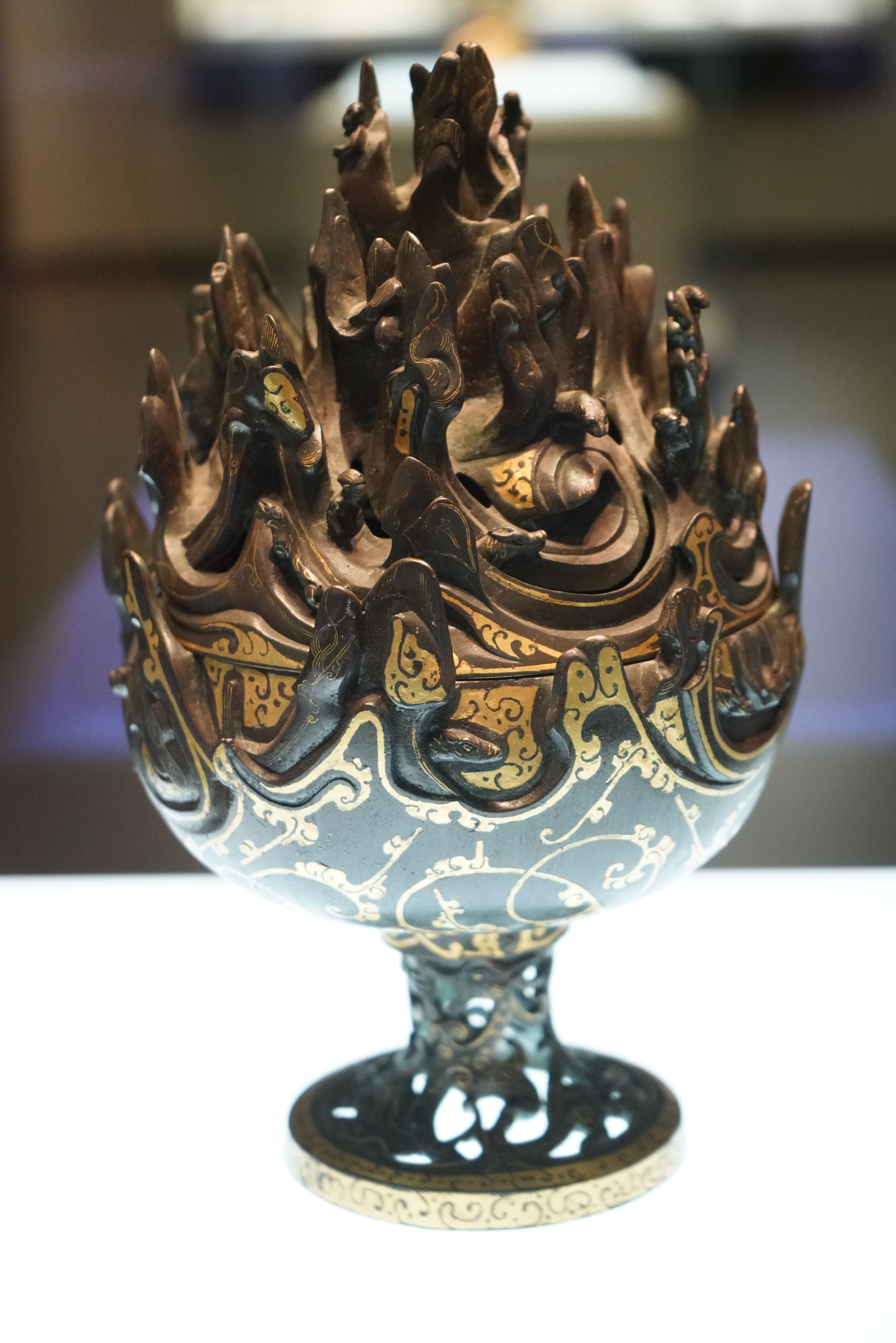 Boshan-style Bronze Incense Burner Inlaid with Gold